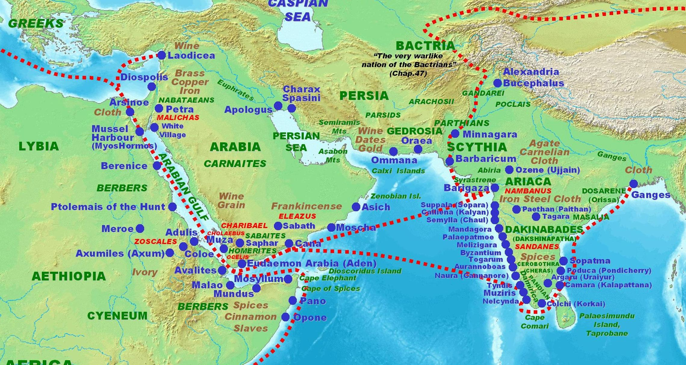 Near East - india Trade route